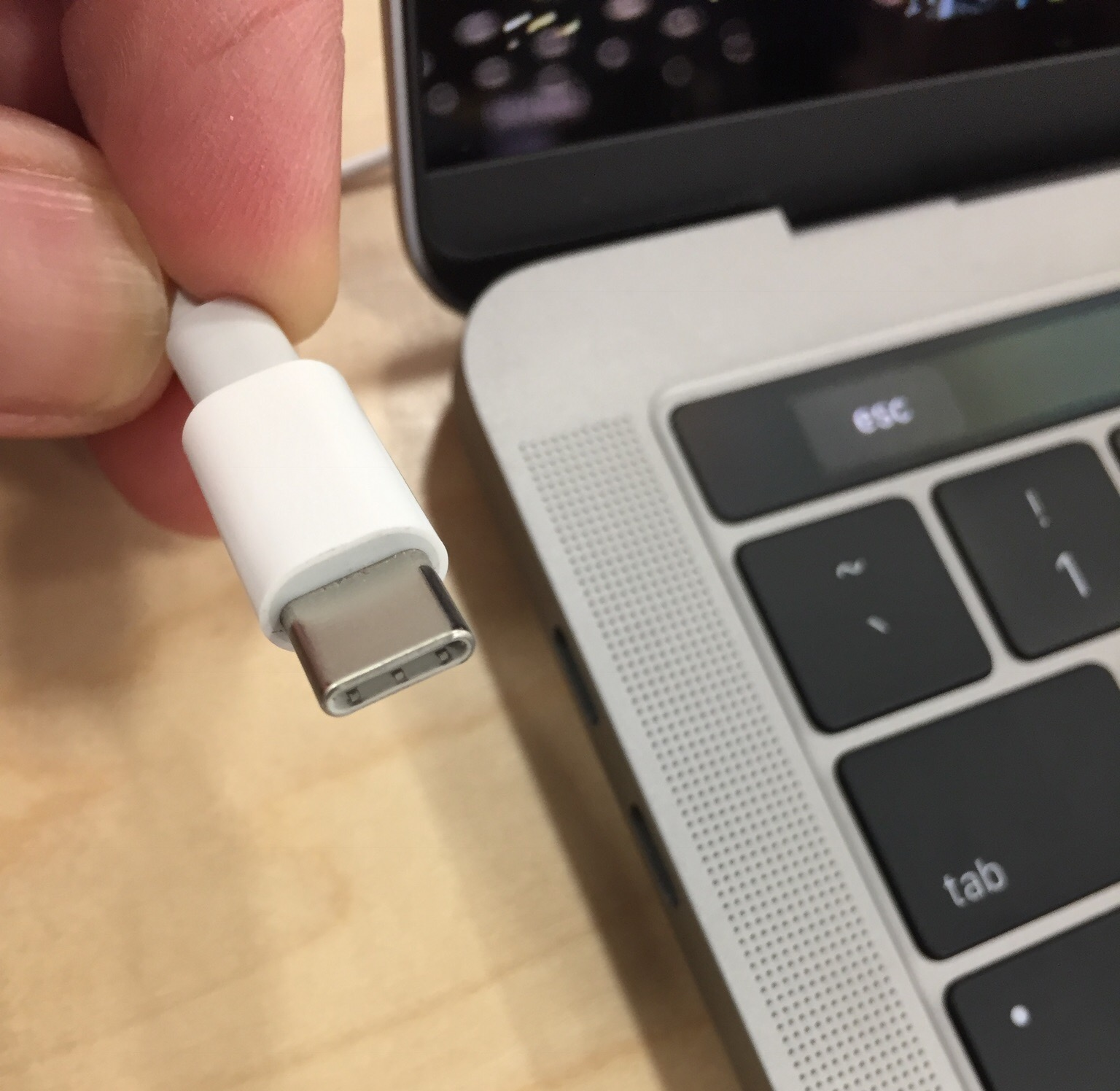 USB type C